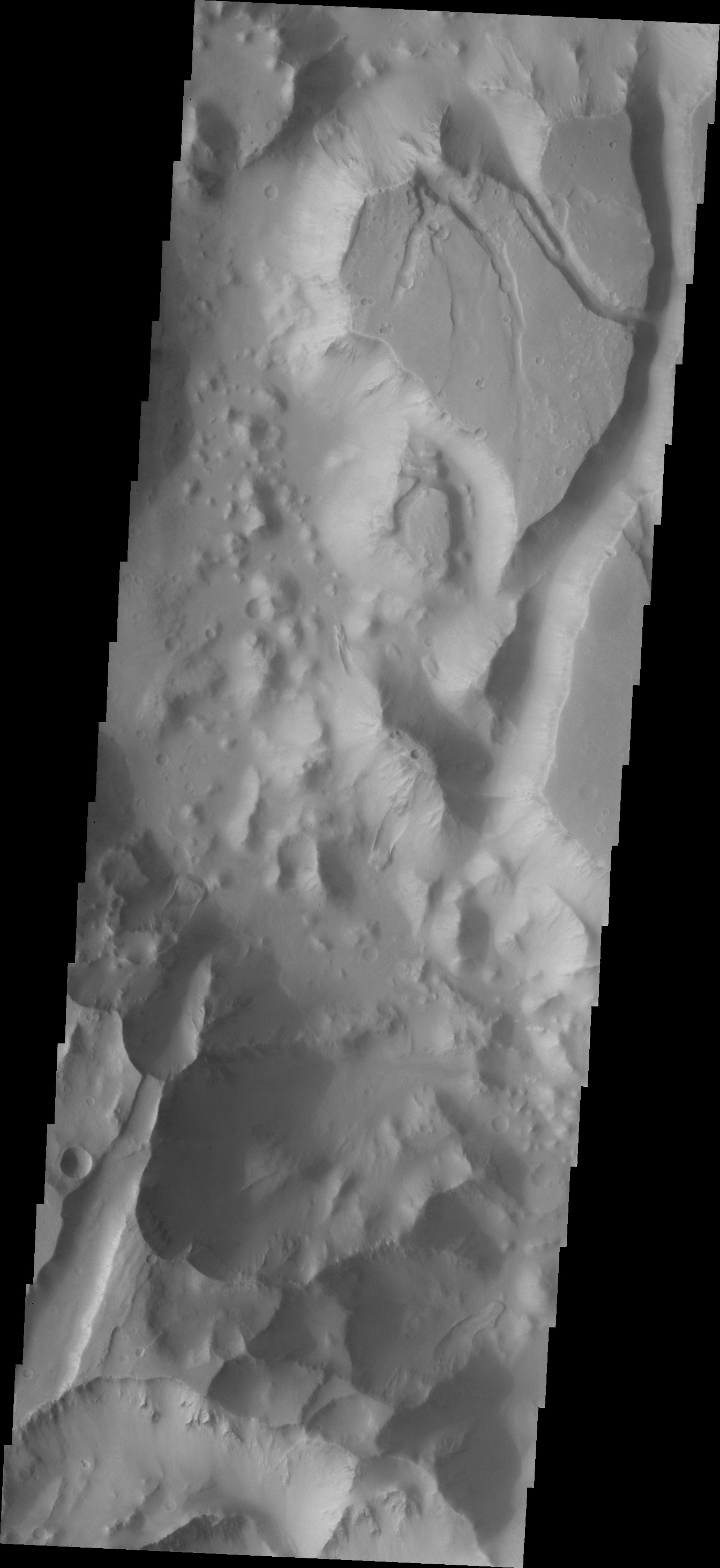 Timbuktu Crater, as seen by themis. Location is 5.7 S and 322.2 E. Image is 18.1 km wide.